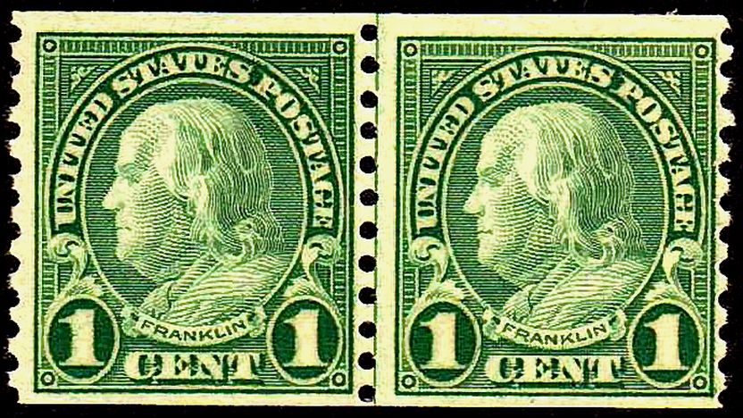 US Postage stamps, Benjamin Franklin, coil pair, regular issue, 1932, 1c, green